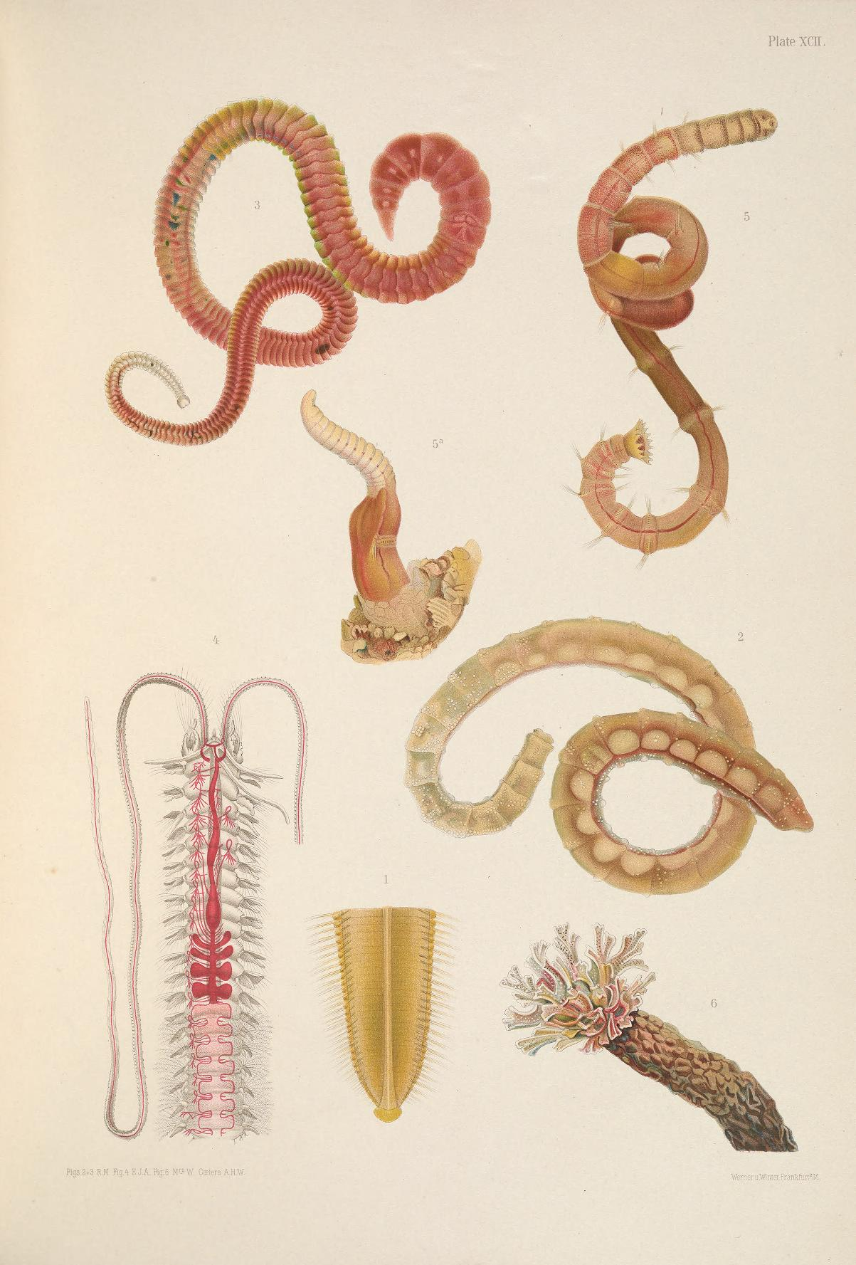 A monograph of the British marine annelids 1915 XCII Plate text 1 Cirratulus tentaculatus = Cirriformia tentaculata (Montagu, 1808) Cirratulidae 2 Notomastus latericeus Sars, 1851 Capitellidae 3 Capitella capitata (Fabricius, 1780) Capitellidae 4 Poecilochaetus serpens Allen, 1904 Poecilochaetidae 5 Nicomache maculata Arwidsson, 1911 Maldanidae 6 Owenia fusiformis Delle Chiaje, 1844 Oweniidae